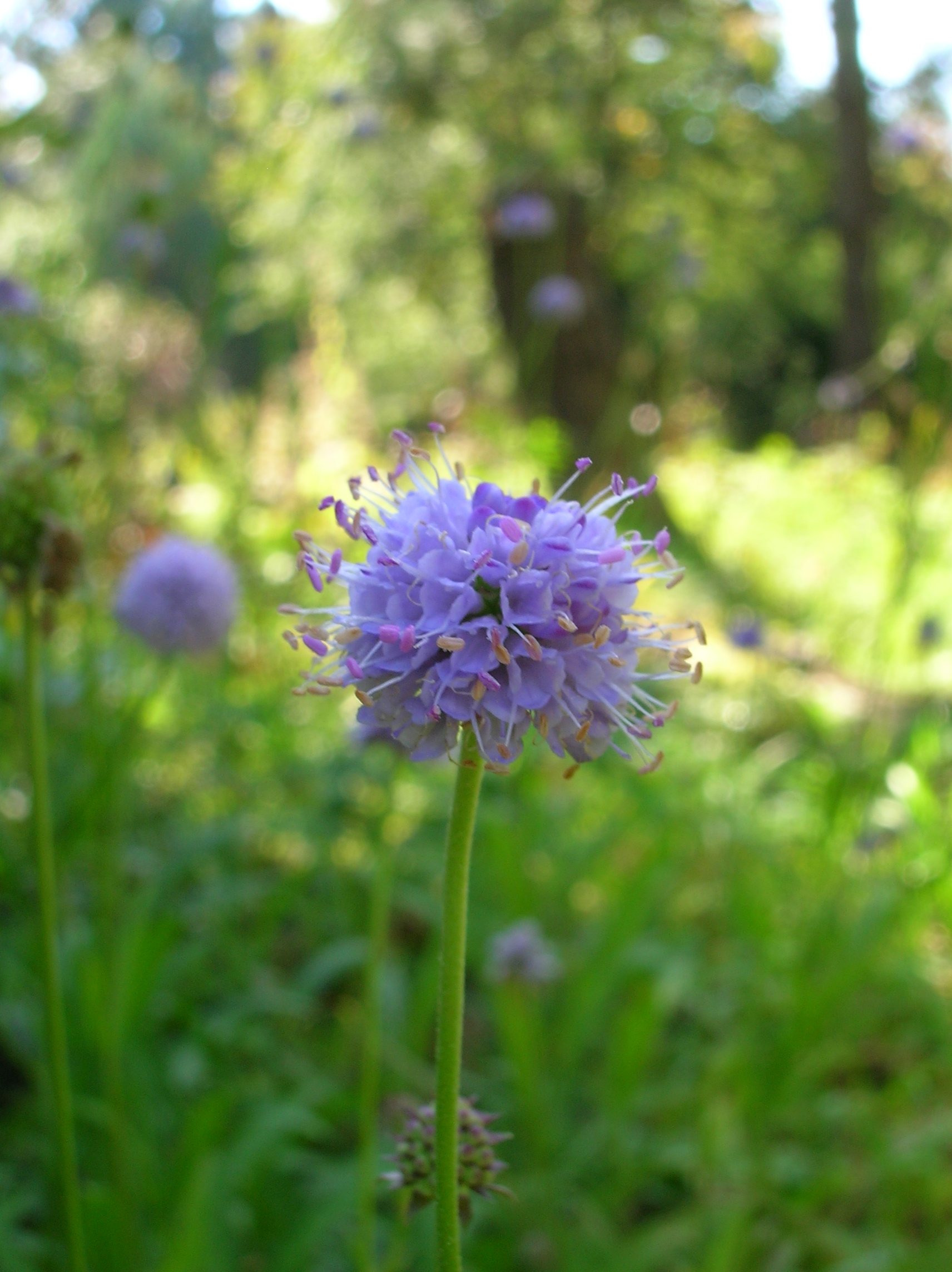 Succisella inflexa, photo taken at the Ecological-Botanical Gardens in Bayreuth, Germany